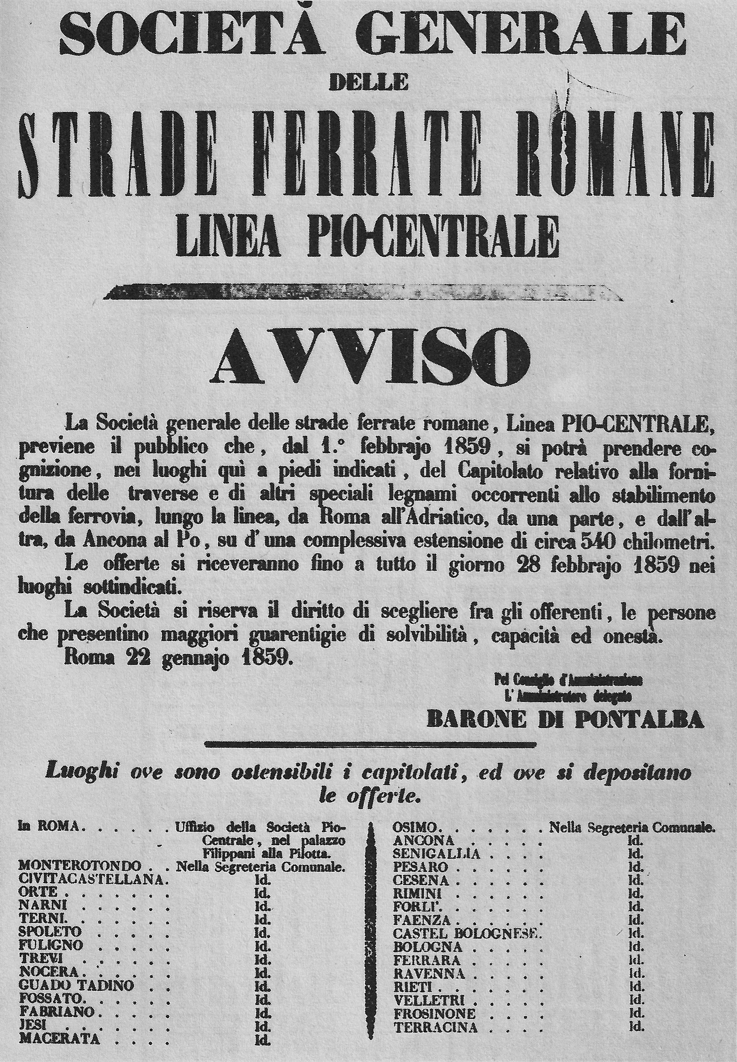 Press notice by the General company of the Roman Railways with which is announced the call for tenders for the supply of construction materials needed for the "Pio Centrale" railway line (Rome-Ancona-Bologna).